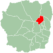 Location map of Ambohidratrimo region in Antananarivo province.